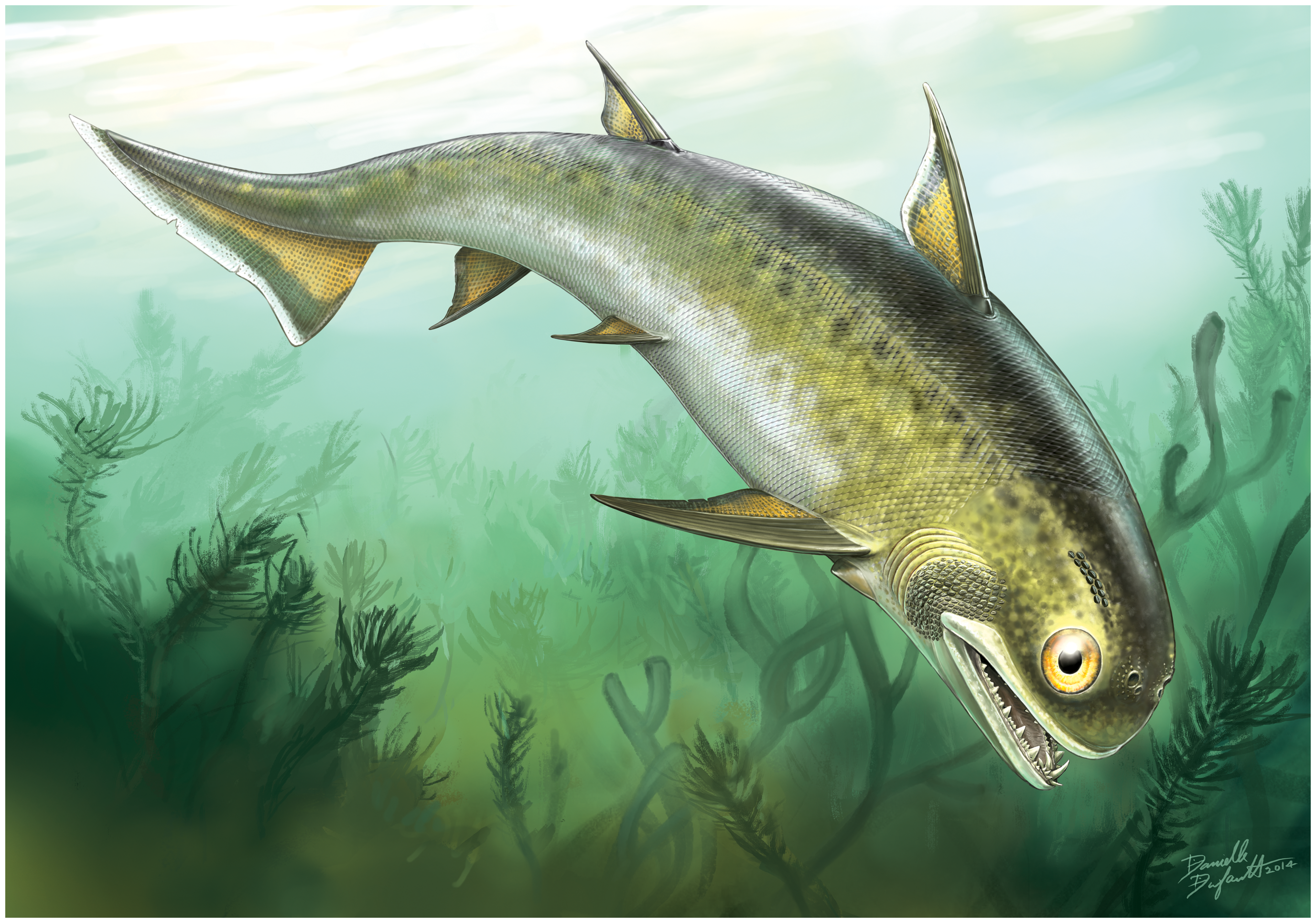 Dynamic depiction by Danielle Dufault (ROM) of the fish Nerepisacanthus swimming above algae in a lagoonal setting representing the Bertie Konservat-Lagerstätte paleoenvironment.